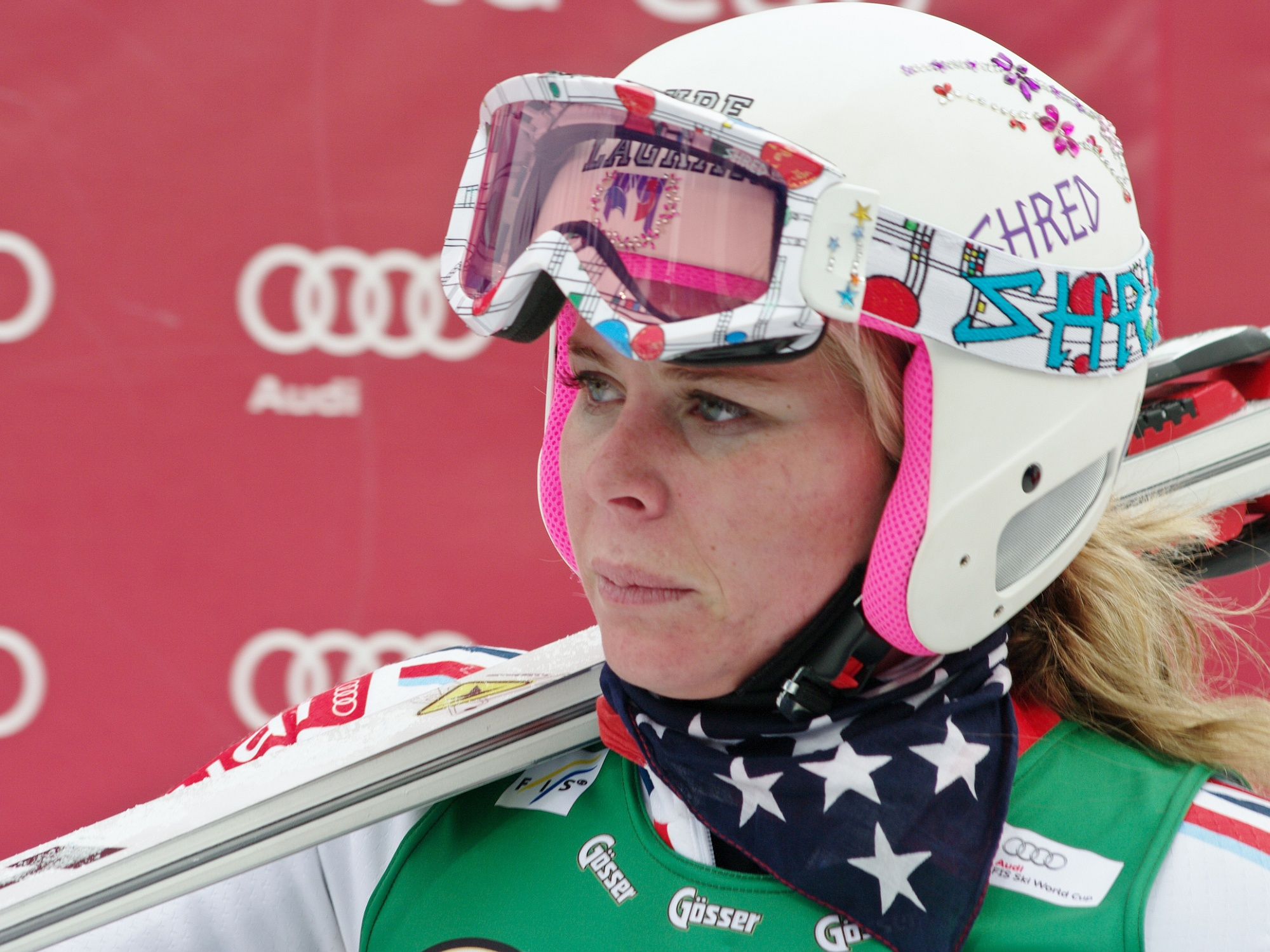 French alpine skier Anne-Sophie Barthet after the first run of the Giant Slalom in Semmering (Austria) on 28 December 2010.